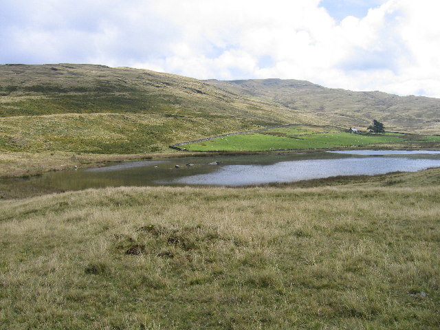 Llyn yr Oerfel. View of Llyn yr Oerfel and a farm workers cottage (hafod) called Tir-y-mynydd constructed in the early 18th century.